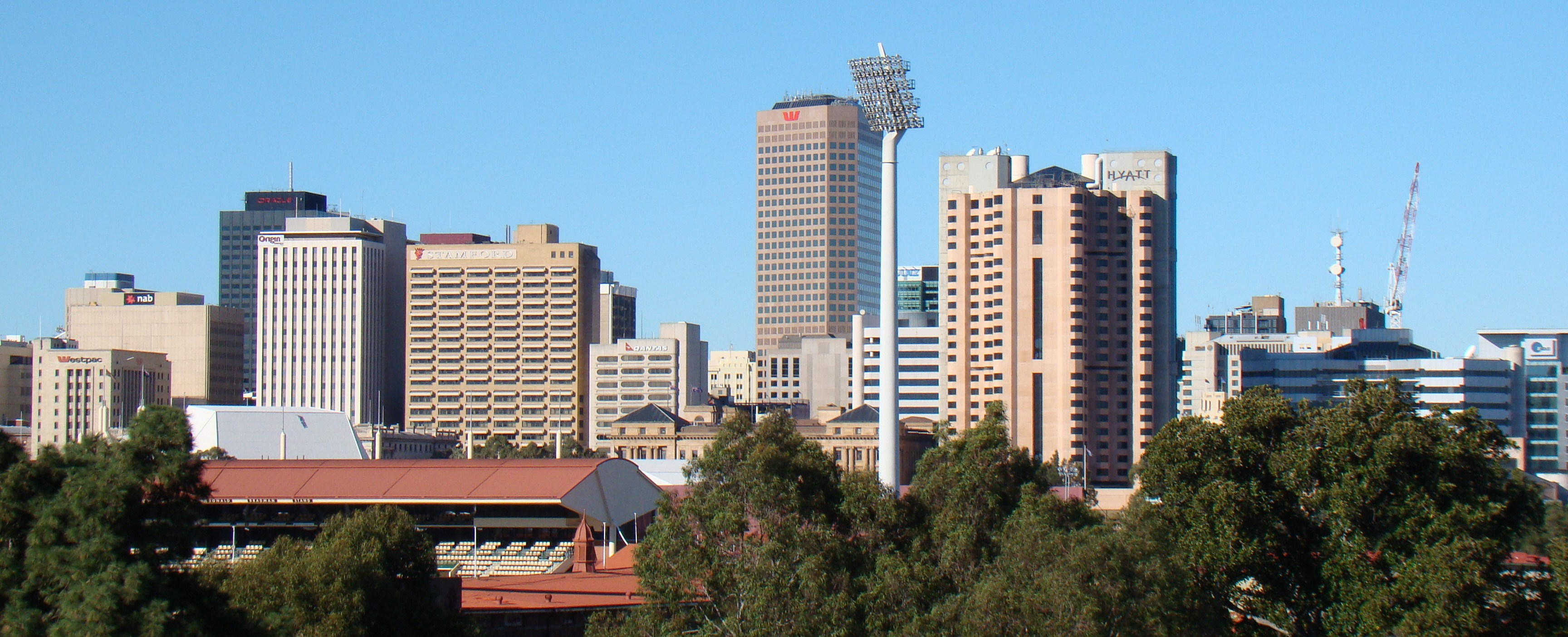 Adelaide city skyline, 2008